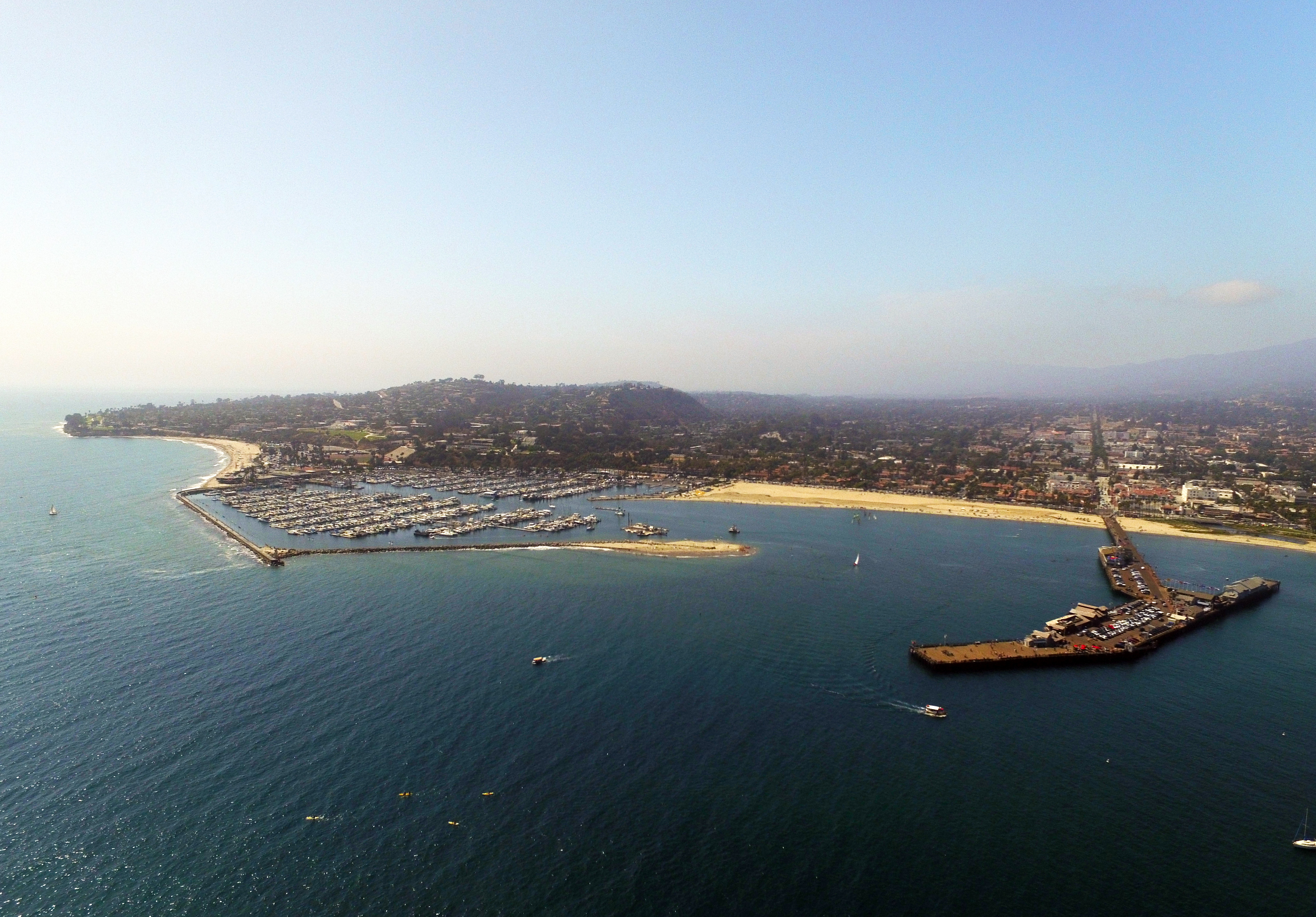 Santa Barbara Harbor Aerial by Don Ramey Logan